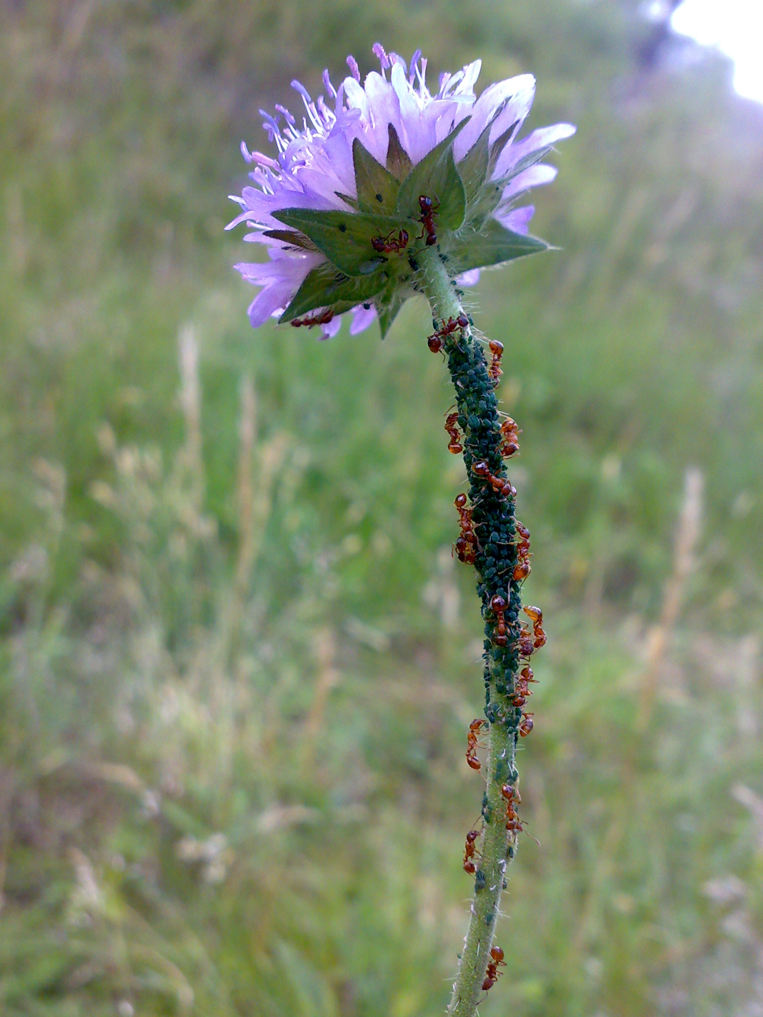 Aphidoidea and ants